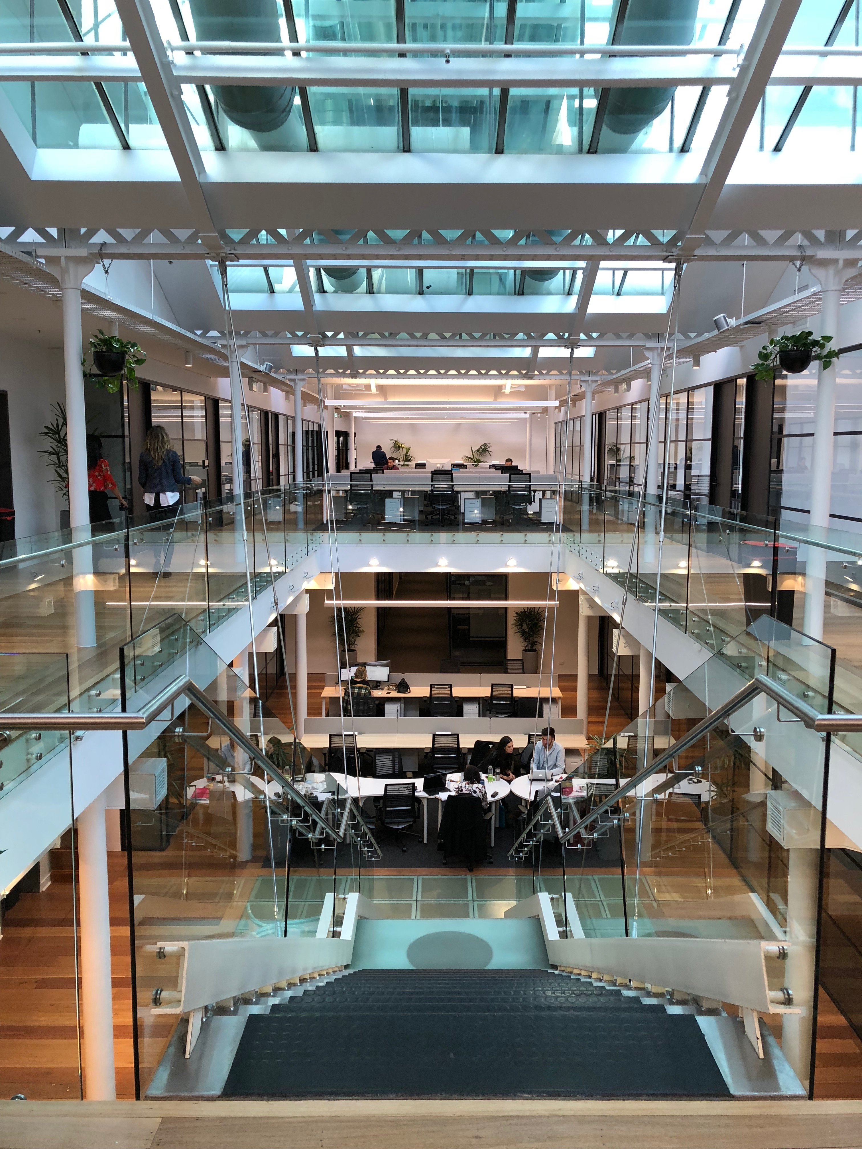 Hub Collins Street in Melbourne, with offices and flexible areas